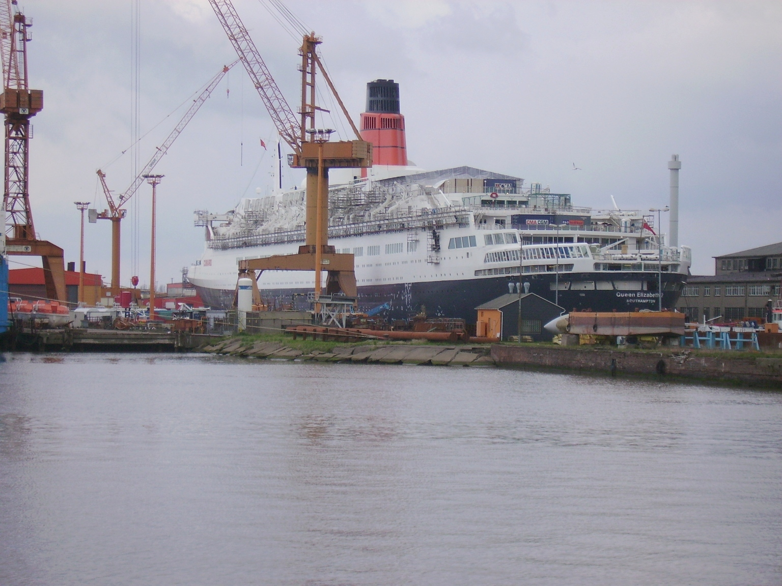 The passenger ship "Queen Elizabeth 2" at the shipyard Lloydwerft in Bremerhaven, Germany